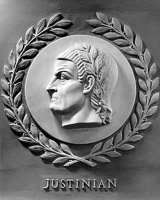 Justinian I marble bas-relief, one of 23 reliefs of great historical lawgivers in the chamber of the U.S. House of Representatives in the United States Capitol. Sculpted by Gaetano Cecere in 1950. Diameter 28 inches.